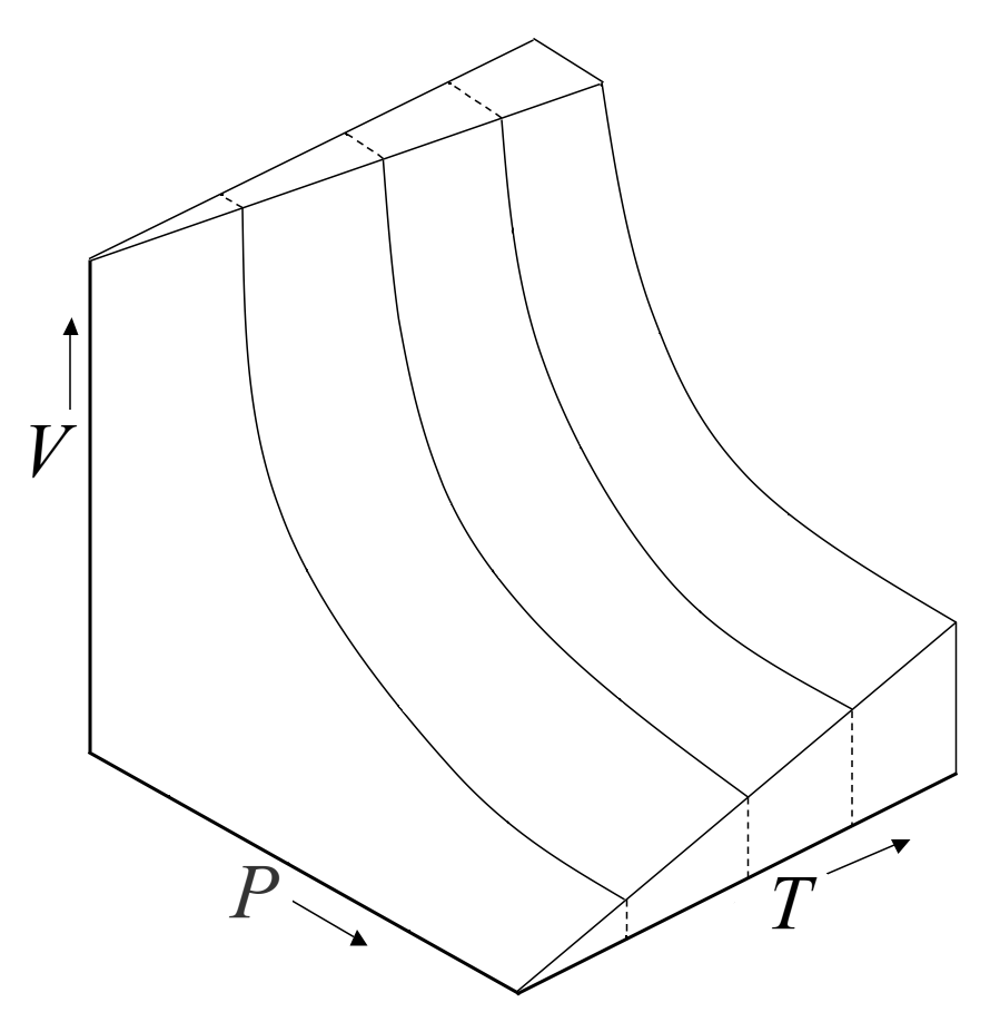 Several isotherms of an ideal gas on a P, T, V-diagram